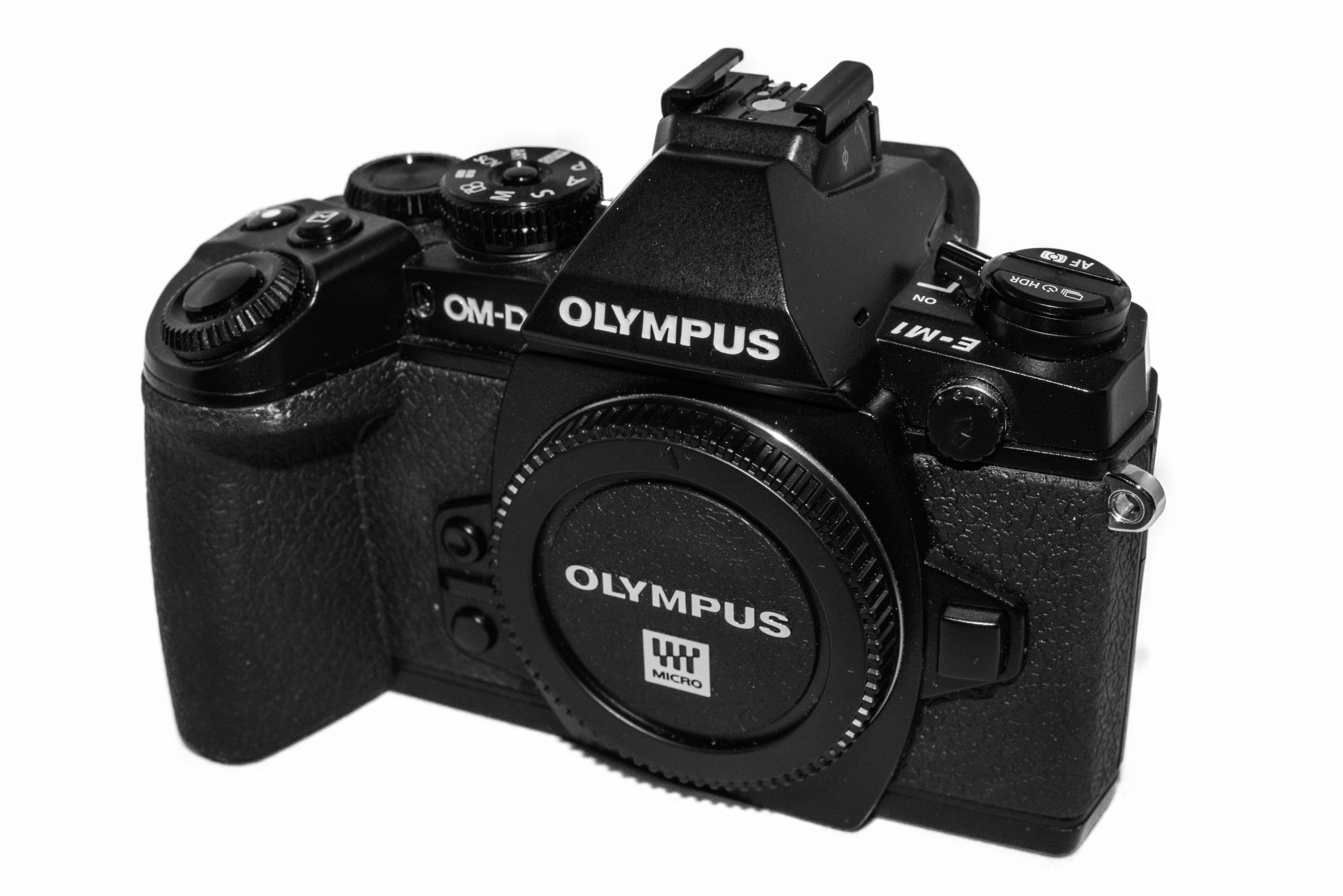 Olympus OM-D E-M1 Photo: Bengt Nyman, March 2017